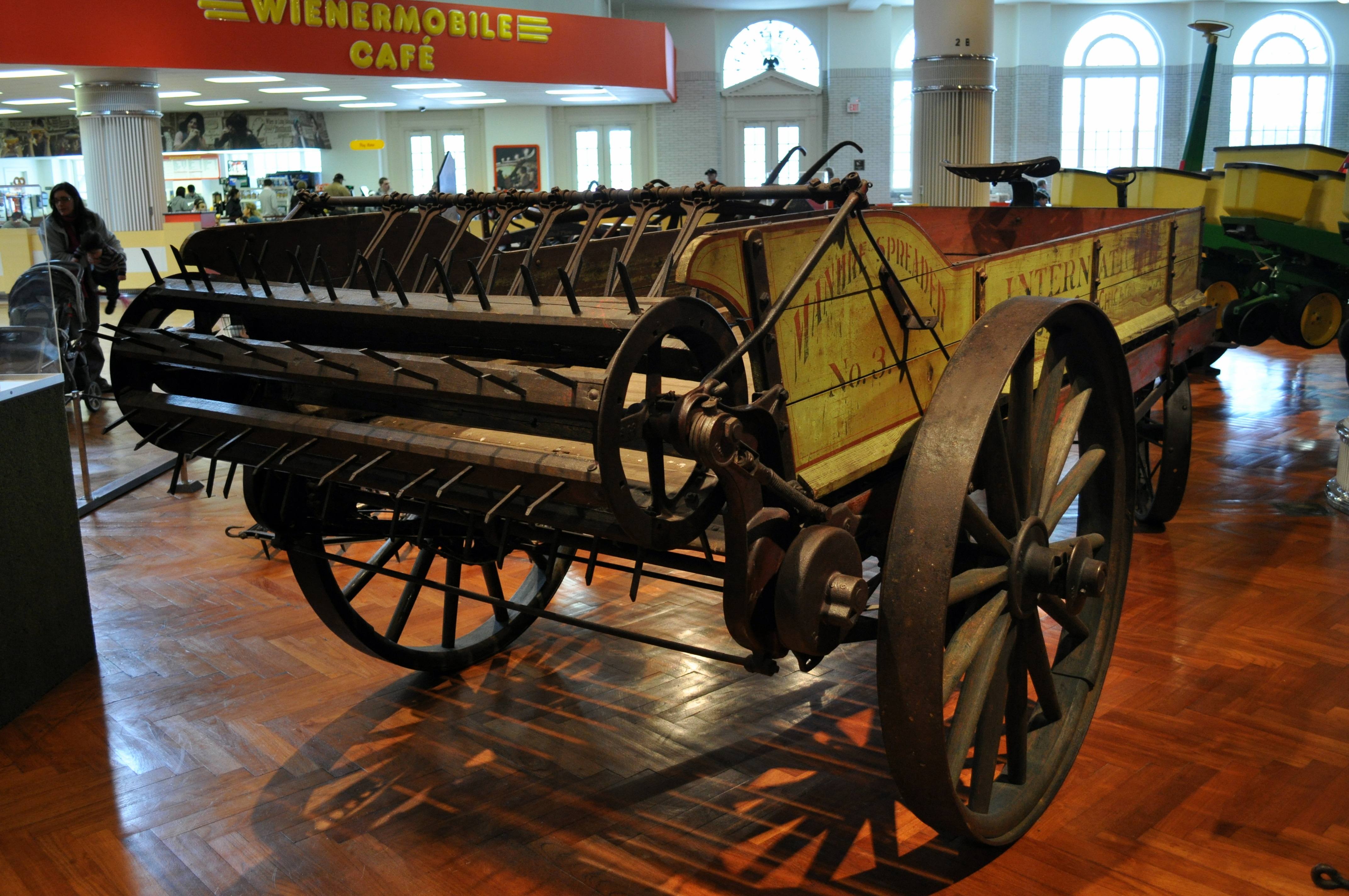 An old IH manure spreader No. 3.– "The original International Harvester."